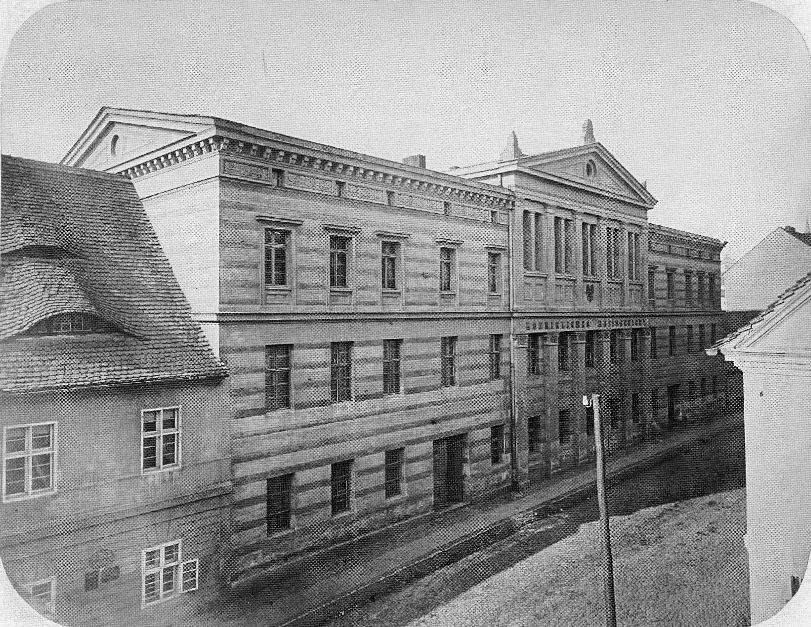 Old Road Courthouse w Krakoska Street